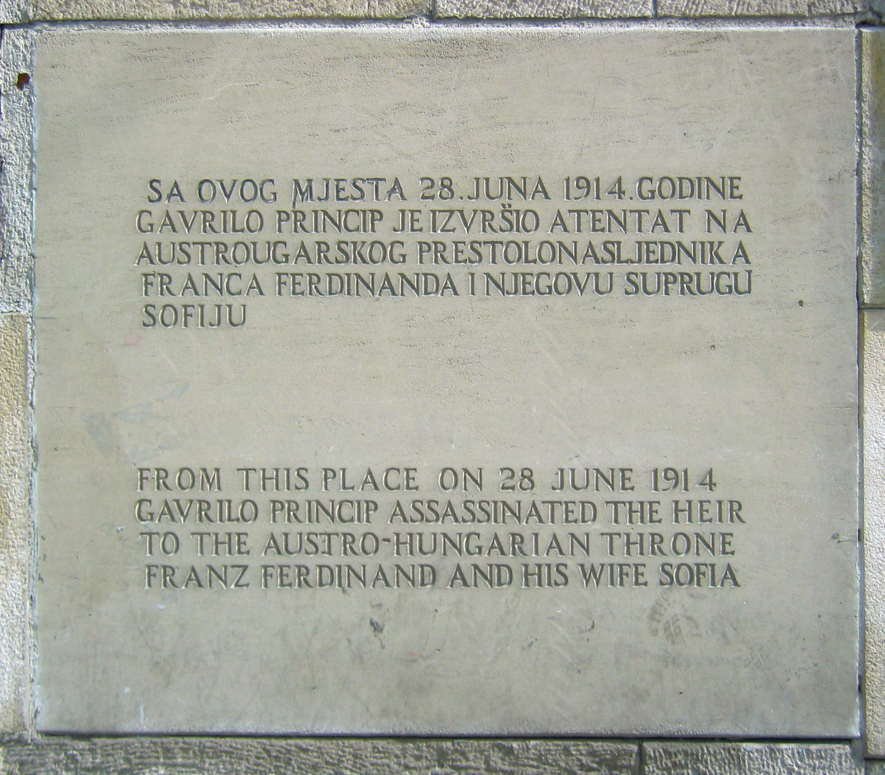 Memorial plaque at the location of the Sarajevo assassination by Gavrilo Princip.